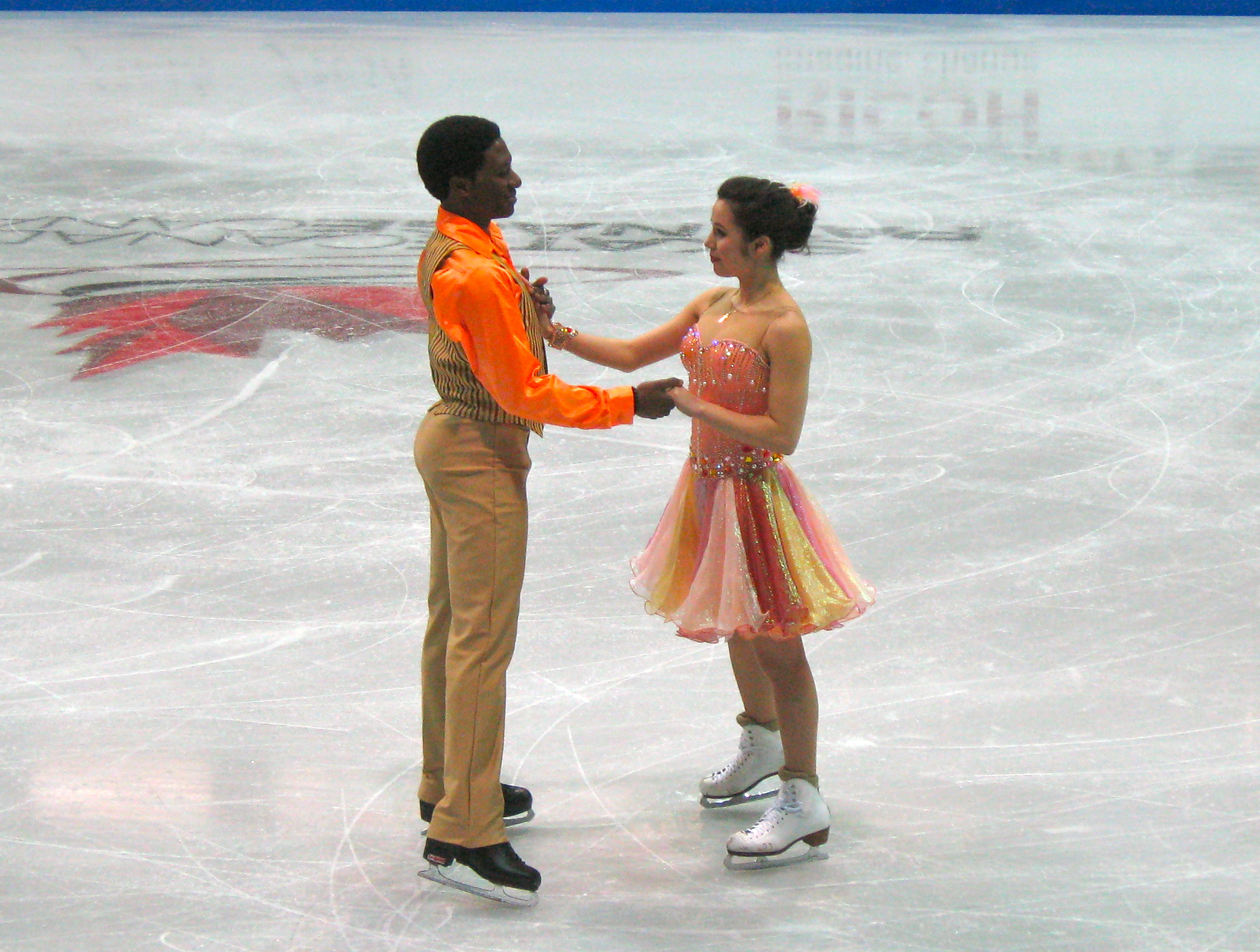 Ice dancers Asher Hill and Karis Ralph performing their short dance during the 2013 Canadian Figure Skating Championships at the Hershey Centre in Mississauga, Ontario